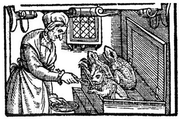 An image of a witch and her familiar spirits taken from a publication that dealt with the witch trials of Elizabeth Stile, Mother Dutten, Mother Devell and Mother Margaret in Windsor, 1579.